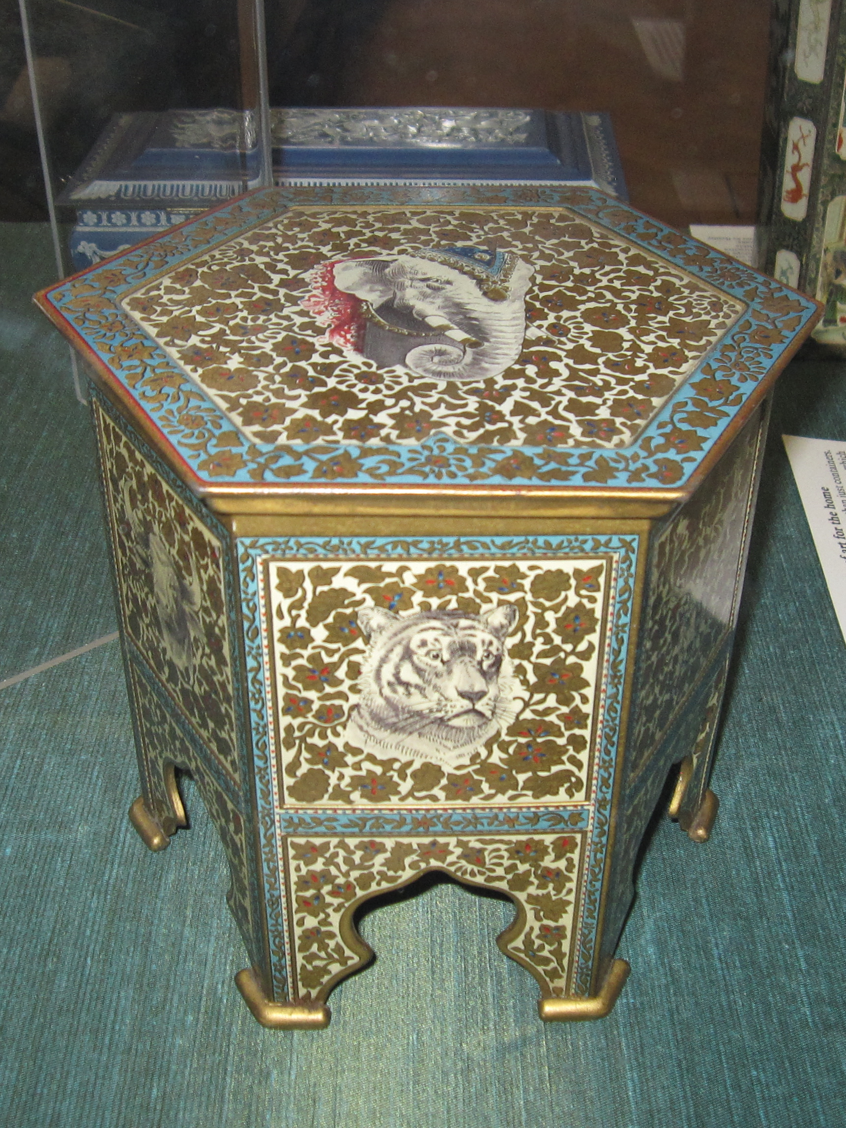 "Kashmir". Huntley and Palmers made a series of biscuit tins shaped like tables. This is the last in the series and the most beautiful. It is in the form of an Indian table decorated with animal heads or sporting trophies. Made by Huntley Bourne & Stevens for Huntley & Palmers, 1904. Victoria and Albert Museum no. M.306-1983.